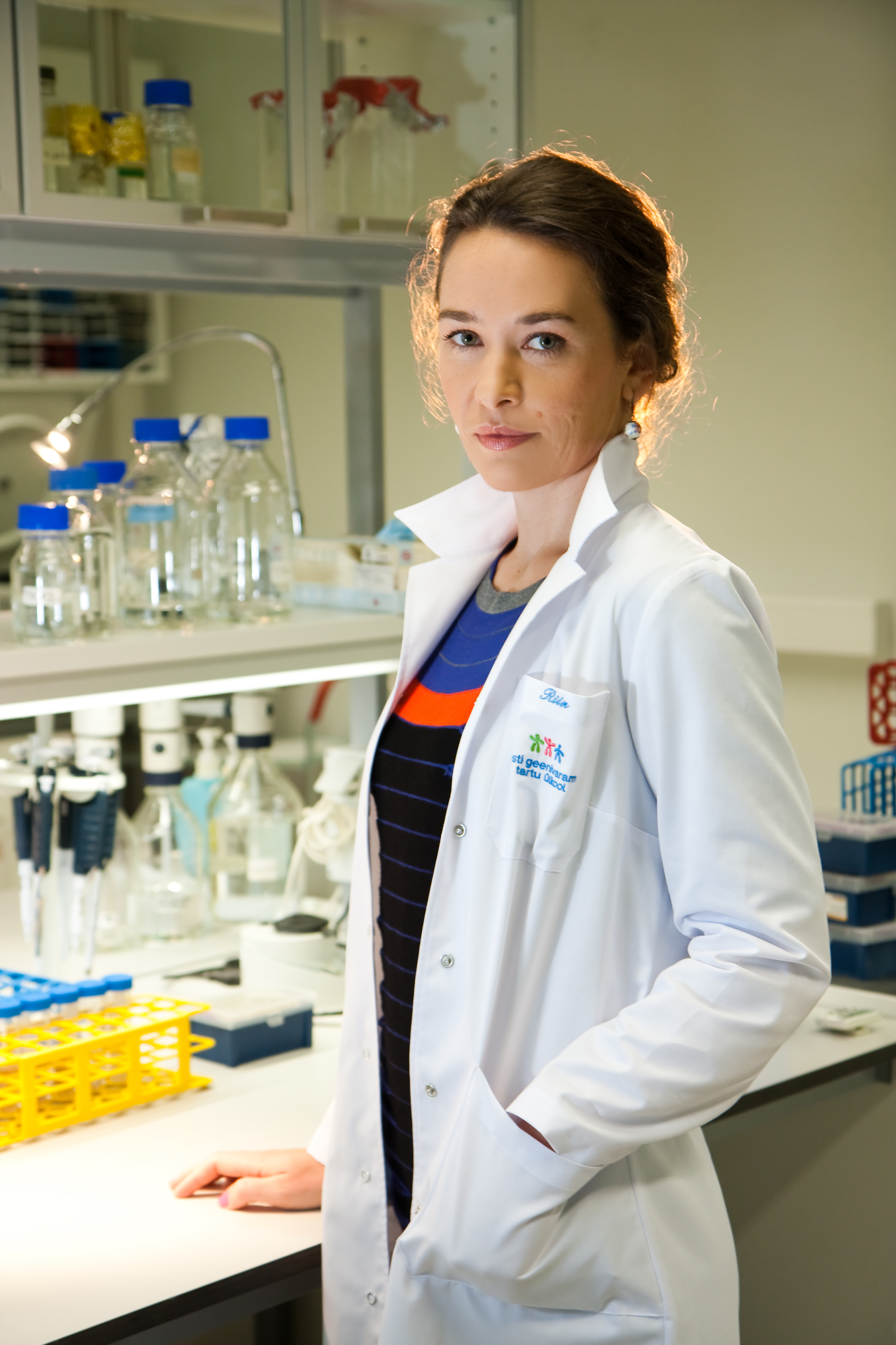 Photograph of the geneticist Riin Tamm, Estonian Biocentre.